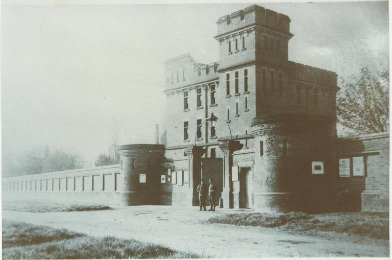 Victoria Barracks, Entrance Gate, Queensgate, Beverley, circa. 1940 Victoria Barracks, built between 1877 and 1878 served as the depot of the East Yorkshire Regiment and also the East Yorkshire militia. Military installations of this kind took place as part of the Cardwell reforms encouraging localisation of British Military forces. Many recruits enlisted at the barracks during its time. During the First World War, the barracks were extended by the construction of a large hutted camp in adjacent fields which became Normandy Camp and in 1949 it was occupied by a Royal Signals Boys training unit. The camp later developed into a housing estate and the access road is now called Normandy Avenue. Following the closure of the barracks in 1960, the Minstry of Defence disposed of the property and in 1989, a Morrisons supermarket was built on the original site. The only remaining part of the original barracks have now been converted into flats. (Why not try searching our East Riding of Yorkshire Map for more historic images? ) (Copyright) We're happy for you to share this digital image within the spirit of Creative Commons. Please cite ' ' when reusing. Certain restrictions on high quality reproductions and commercial use of the original physical version apply. If unsure please